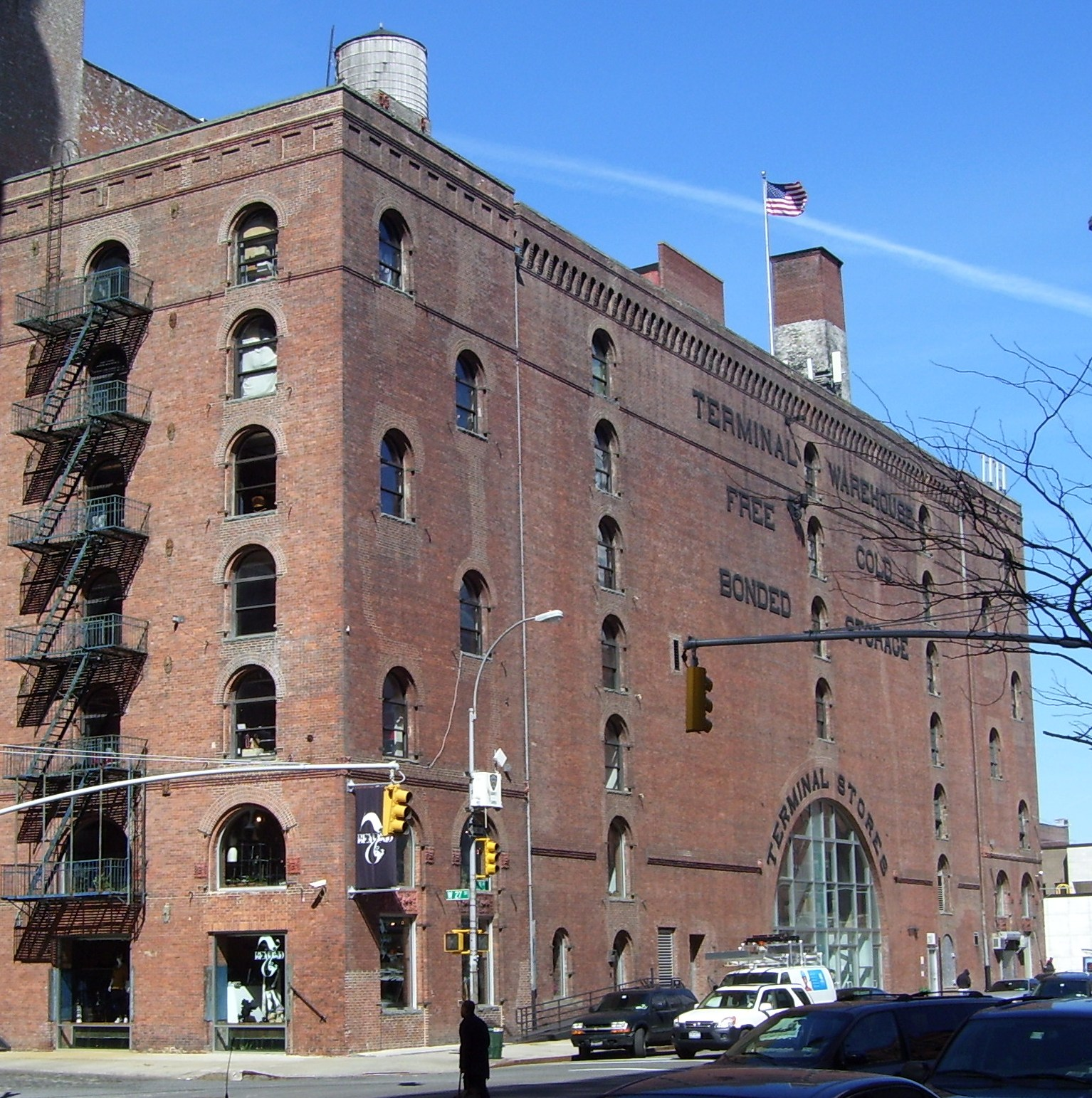 The Terminal Warehouse Central Stores Building on Eleventh Avenue between 27th and 28th Streets in the Chelsea neighborhood of Manhattan, New York City is part of the West Chelsea Historic District.